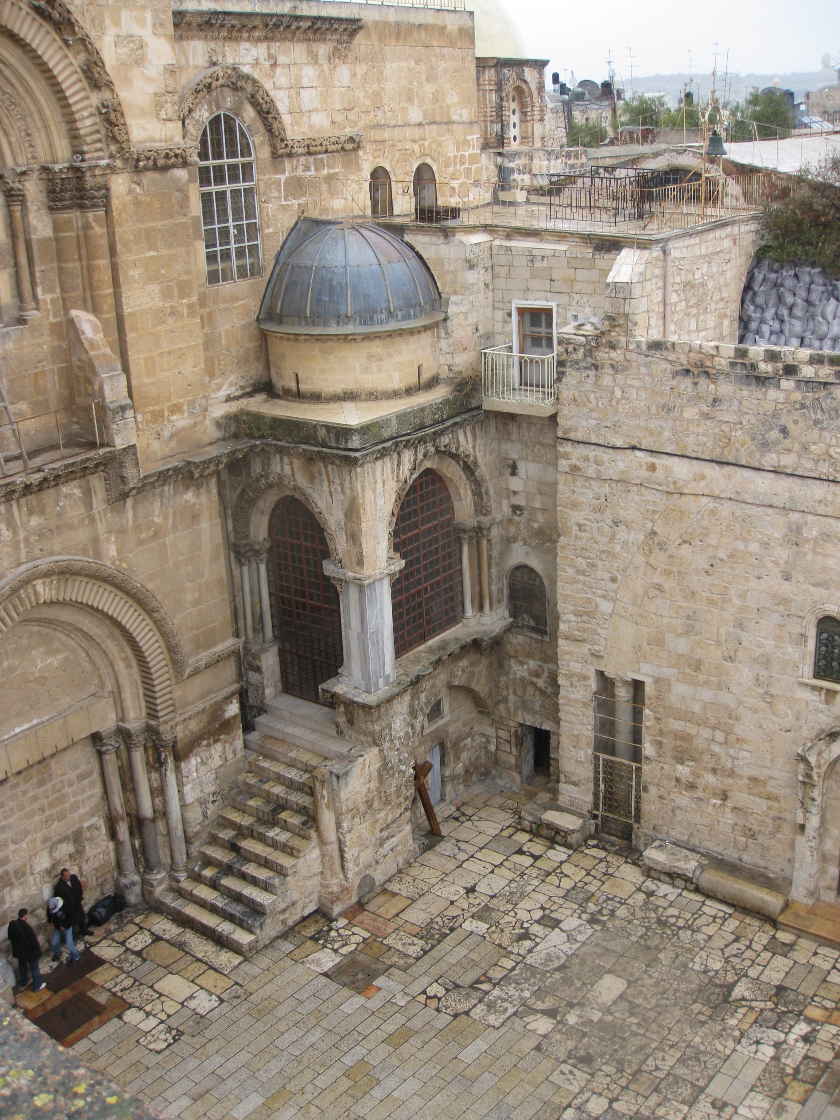 Facade of the Holy Sepulchre